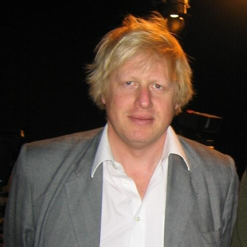 cropped version of Image:Boris Johnson.jpg